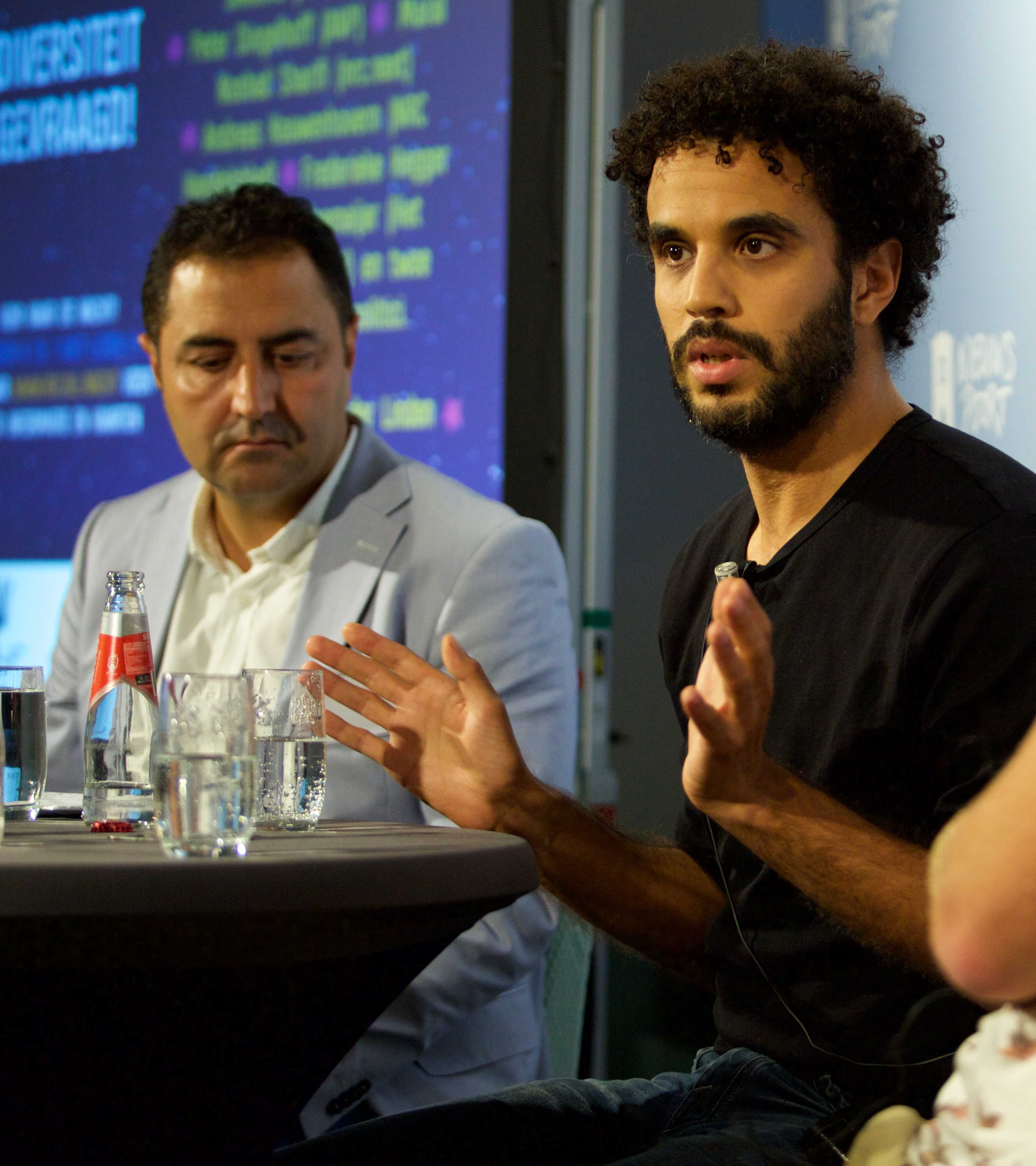 Op zaterdag 26 september vond de negende editie van de jaarlijkse Nacht van de Journalistiek plaats. Dit jaar stond het evenement in het teken van diversiteit in de media. De Nacht van de Journalistiek wordt georganiseerd door ViP, de jongerensectie van de NVJ.